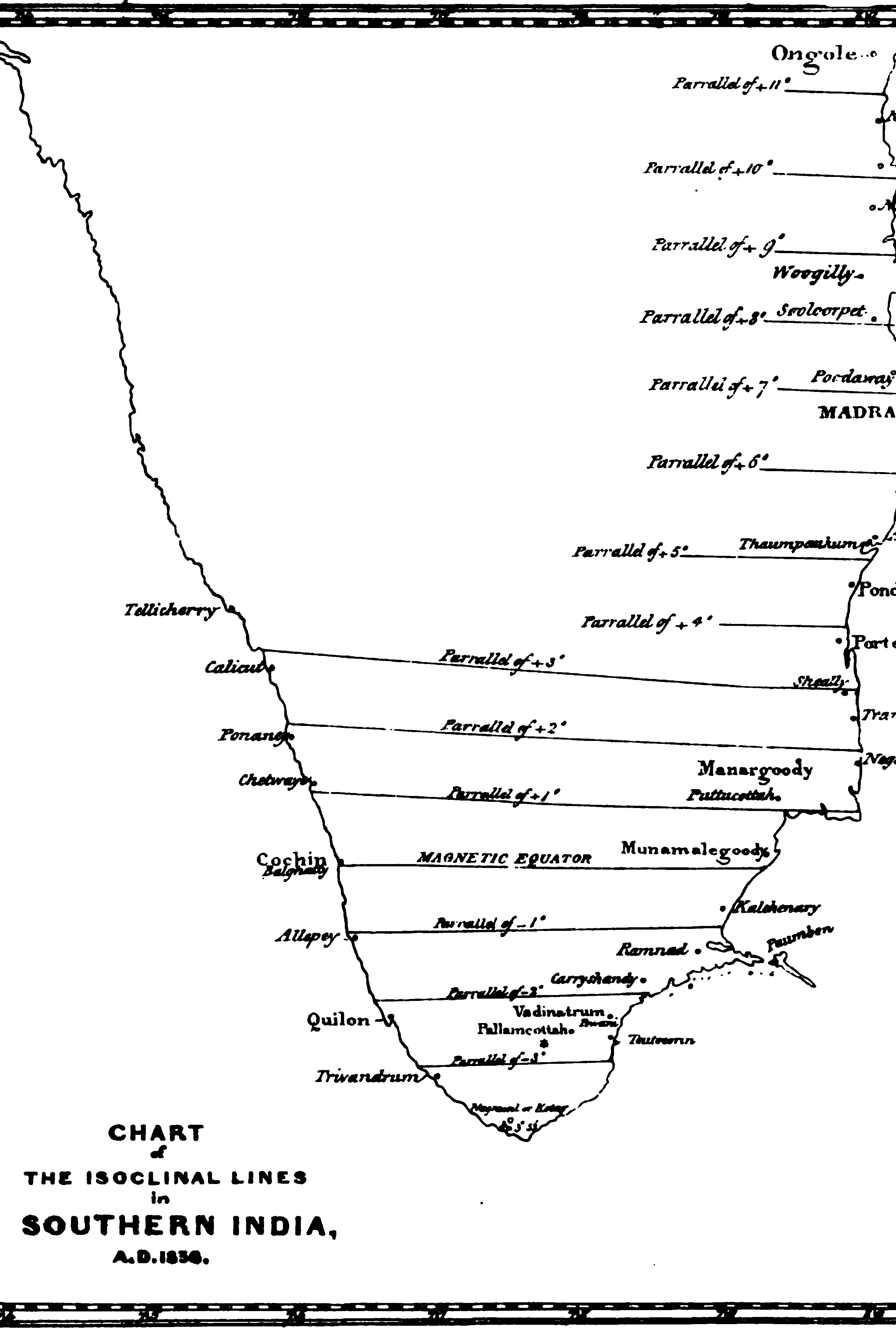 Magnetic isoclines in southern India c. 1838